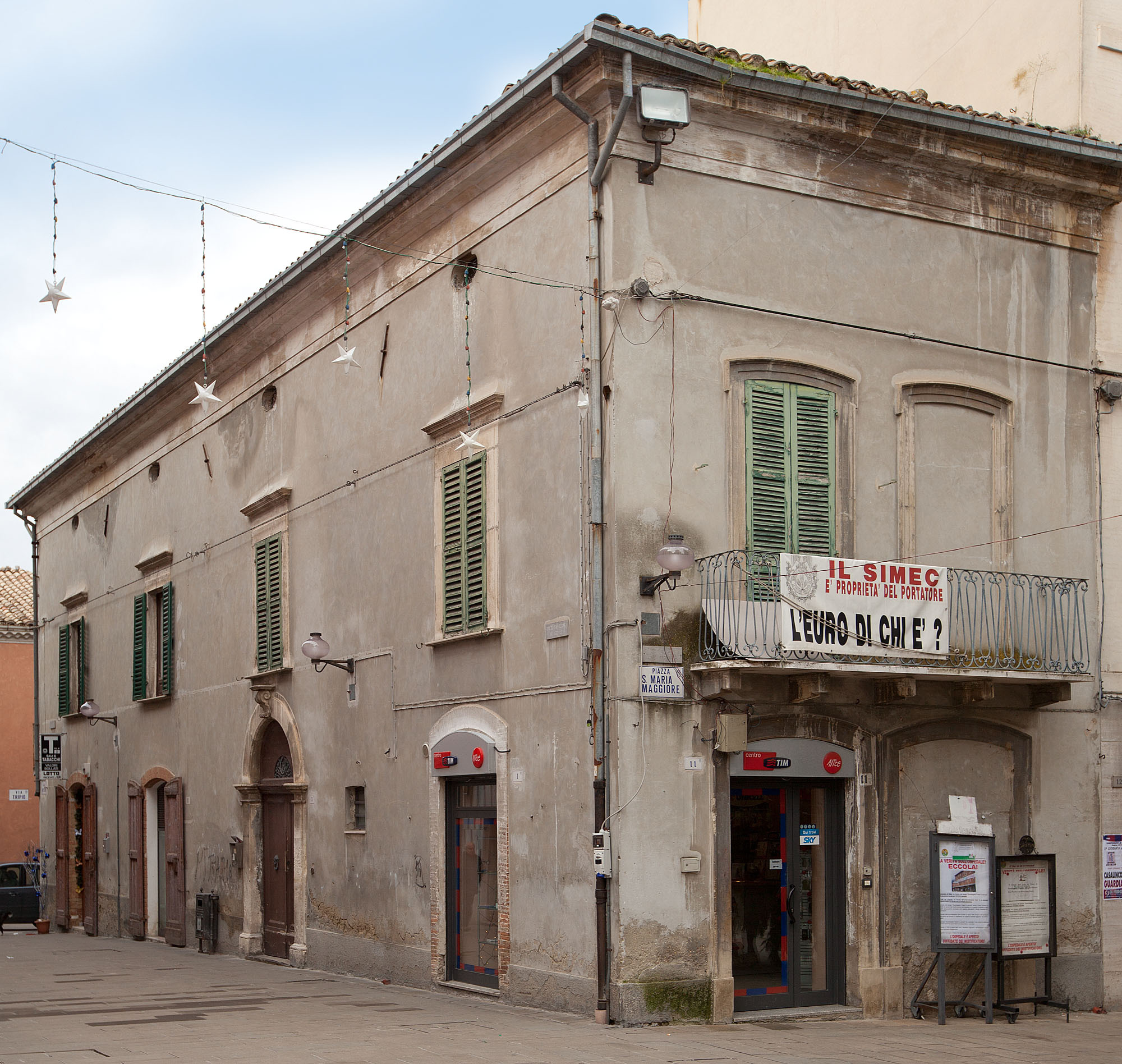 The Auriti House at the Santa Maggiore Plaza in Guardiagrele, with the sign of the SIMEC (Translation: “The SIMEC is the property of the holder. Who does the Euro belong to?”